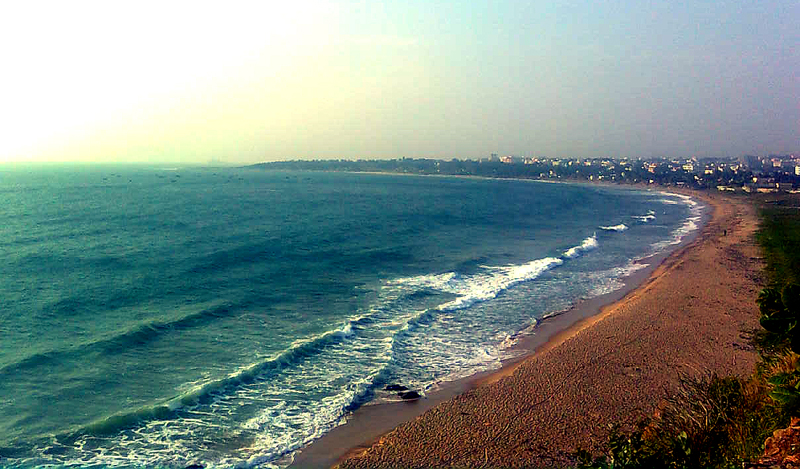 Bay of Bengal view from Tenneti park in Visakhapatnam